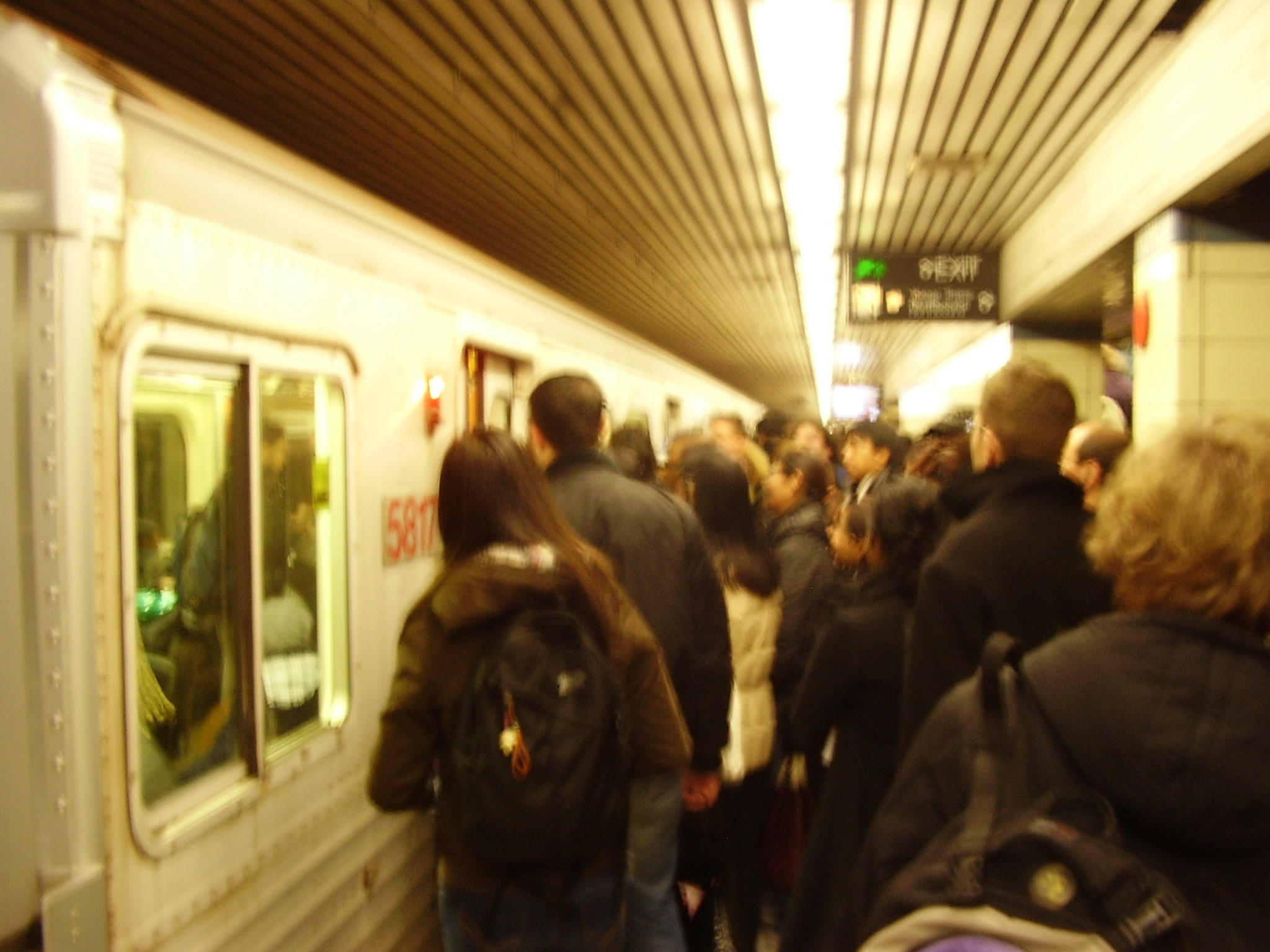 Yonge subway station of the Toronto subway in the afternoon rush hour.